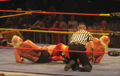 Hulkamania Tour @ Rod Laver Arena. Melbounre, AUS.